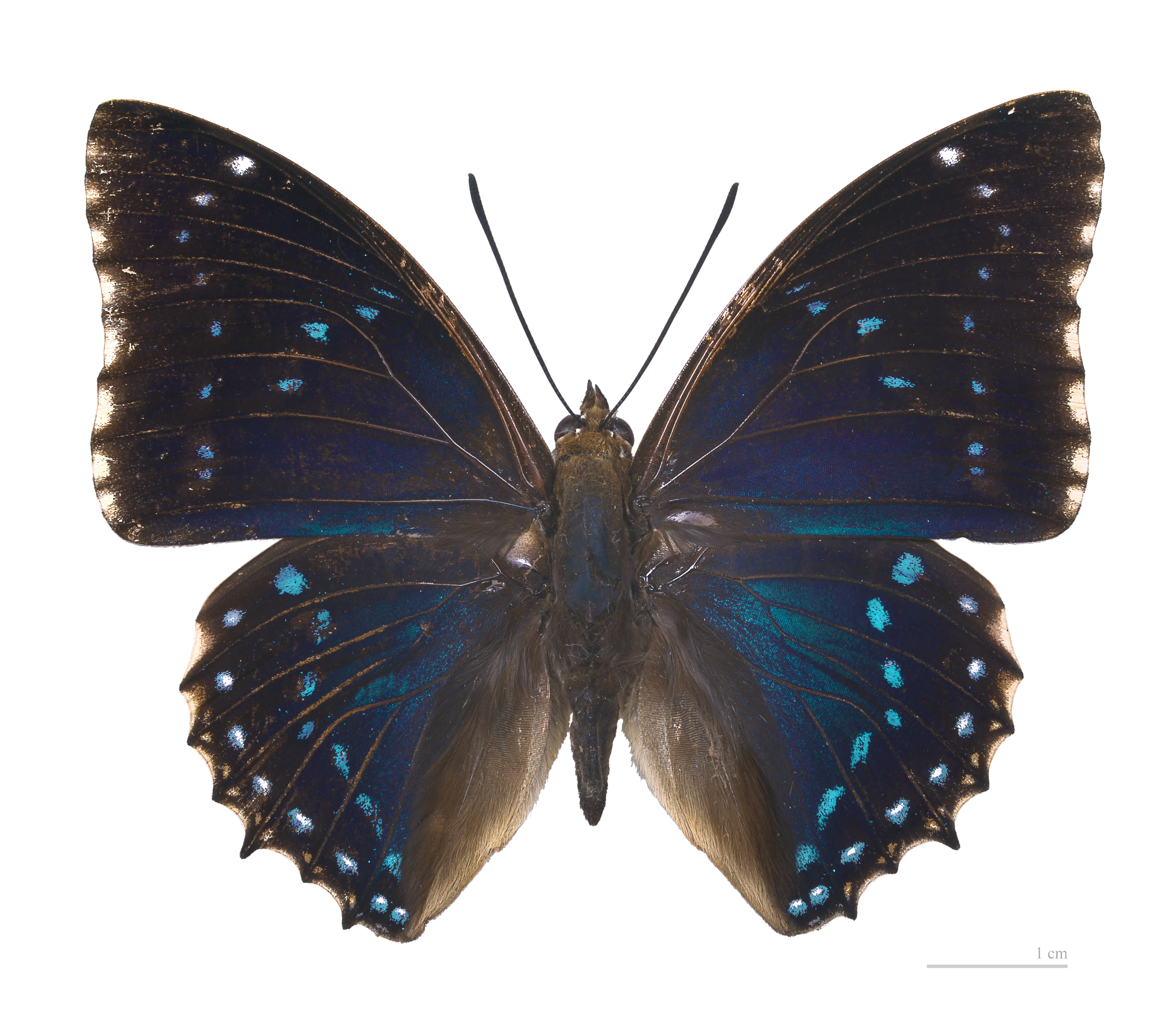 ♂ - Dorsal side Locality: Hill, Bangui, Central African Republic